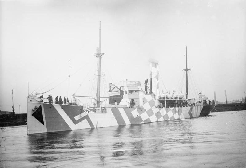 British Aubretia class sloop HMS Polyanthus, as a Q ship in World War I.